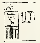 Drawing by Flinders Petrie of a cylinder seal of Menkauhor Kaiu.